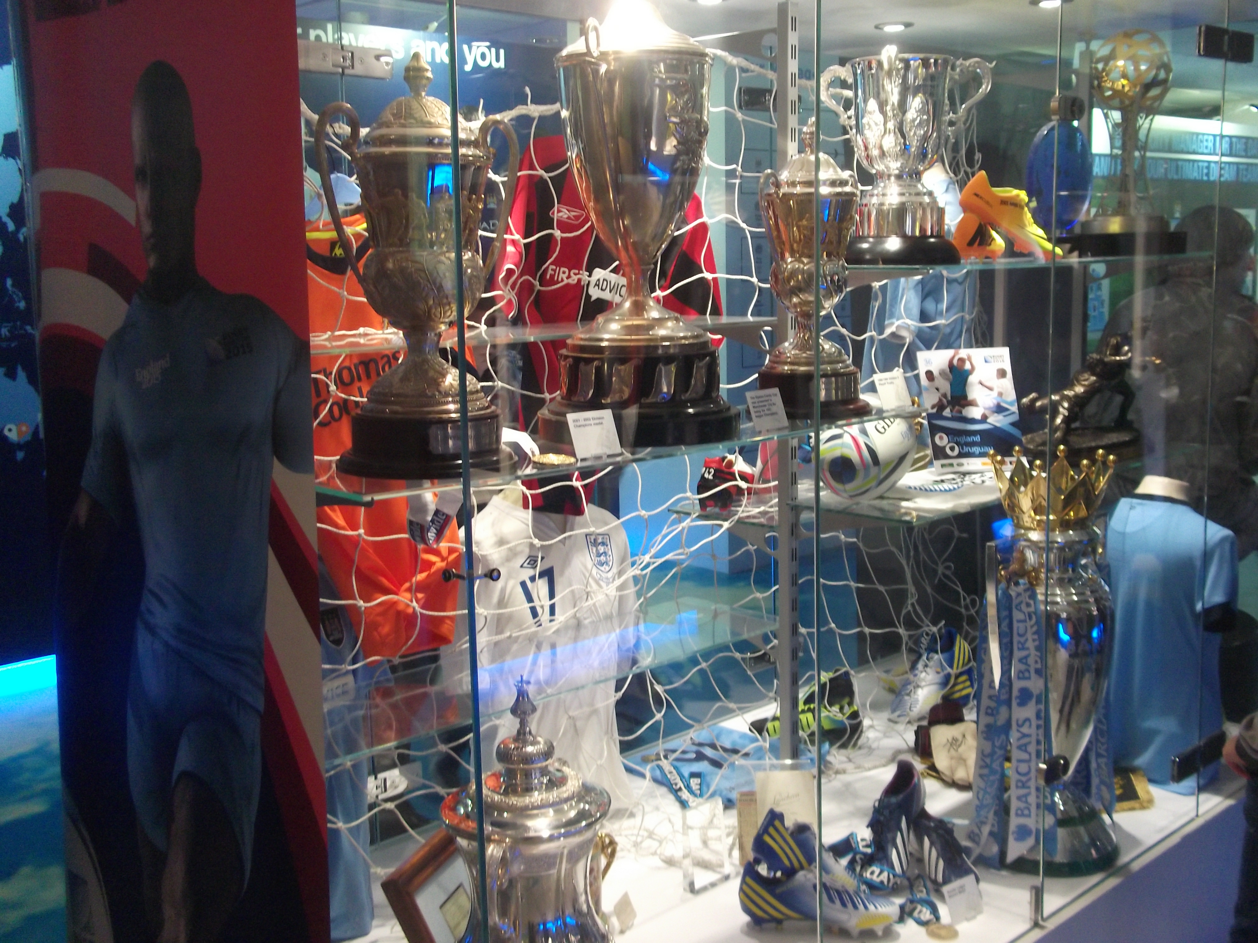 City of Manchester Stadium, October 2015